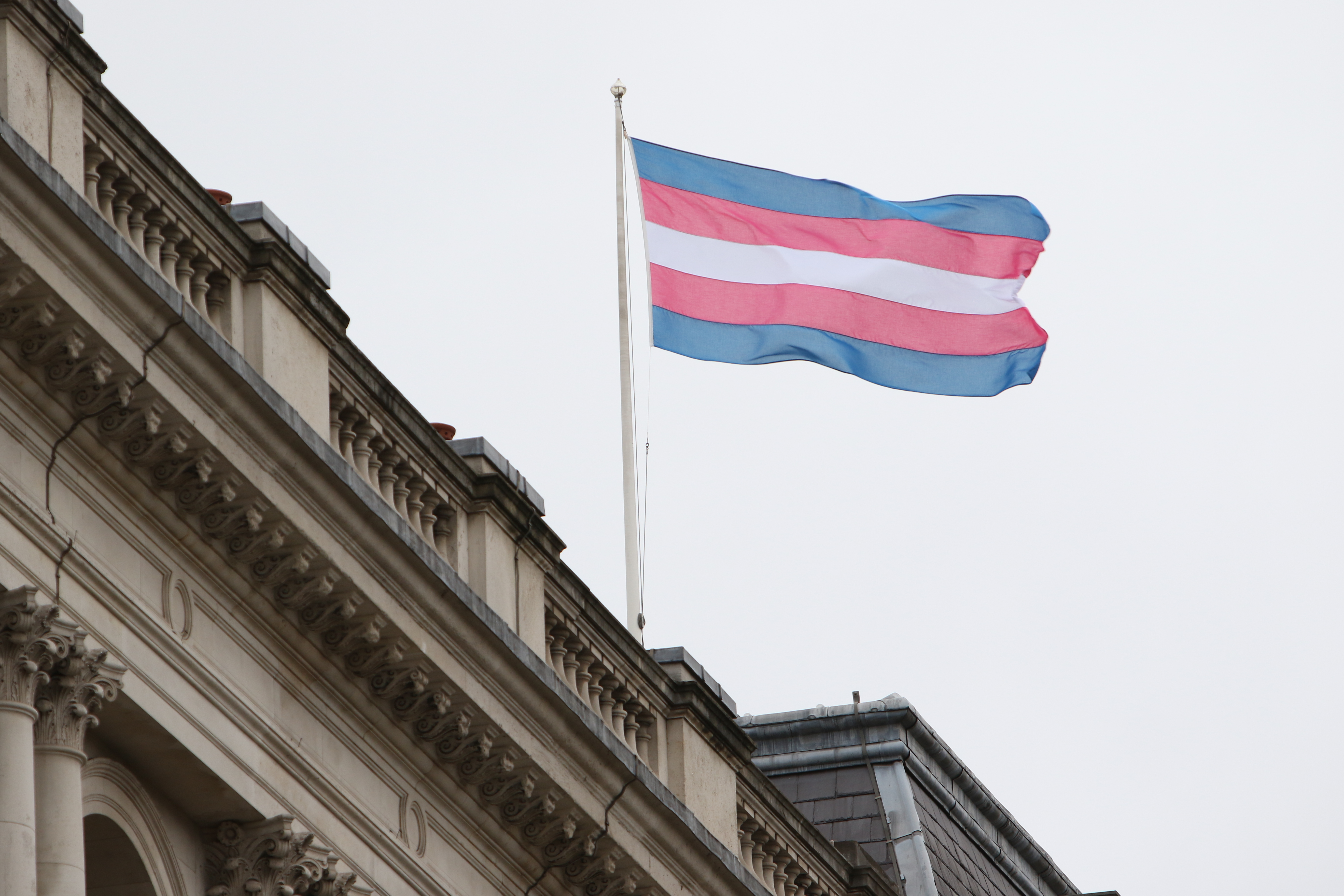 The Transgender Pride Flag flies on the Foreign Office building in London on Transgender Day of Remembrance, 20 November 2017, a moment to remember all those trans people around the world who have lost their lives because of who they are. The FCO is committed to tackling prejudice, violence and discrimination against LGBT people globally.